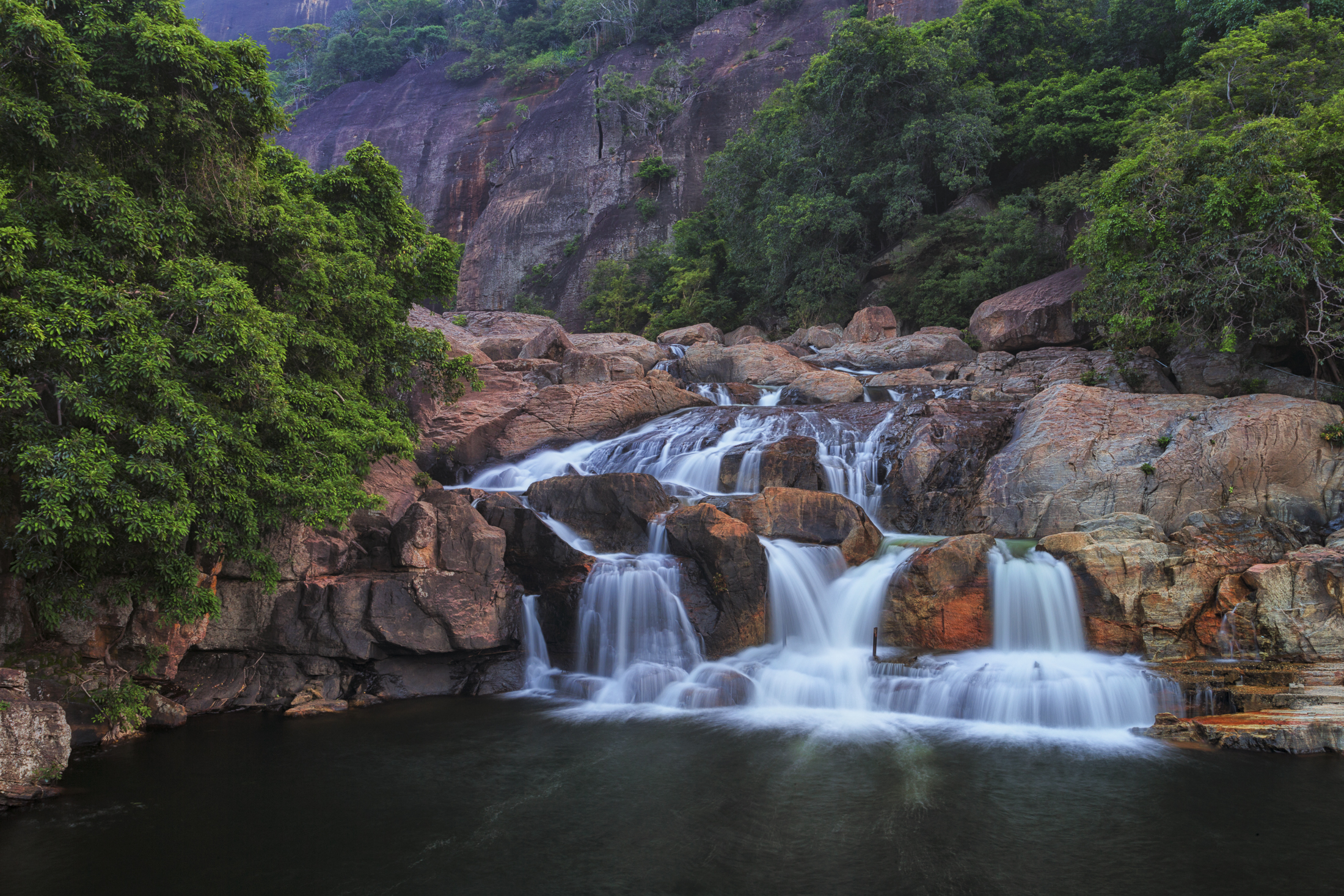 Manimuthar falls located within the Kalakad Mundanthurai Tiger Reserve.